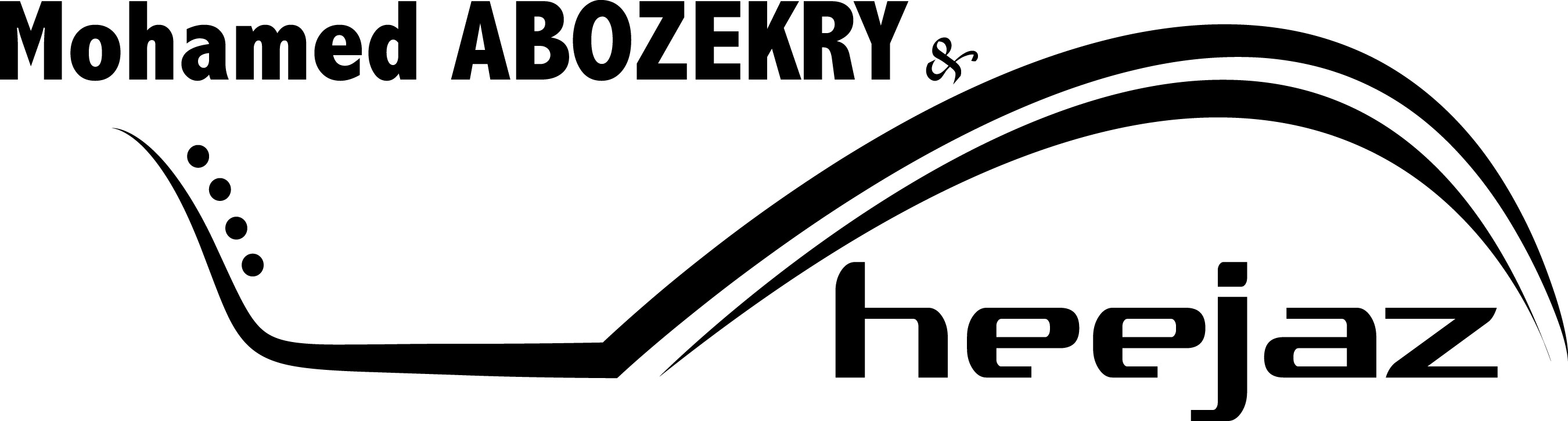 Logo of M&H